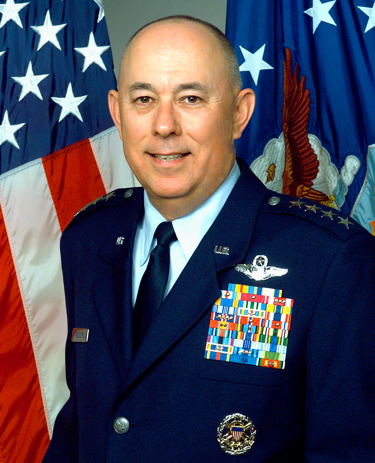 General T. Michael Moseley, Chief of Staff AF since 09/2005